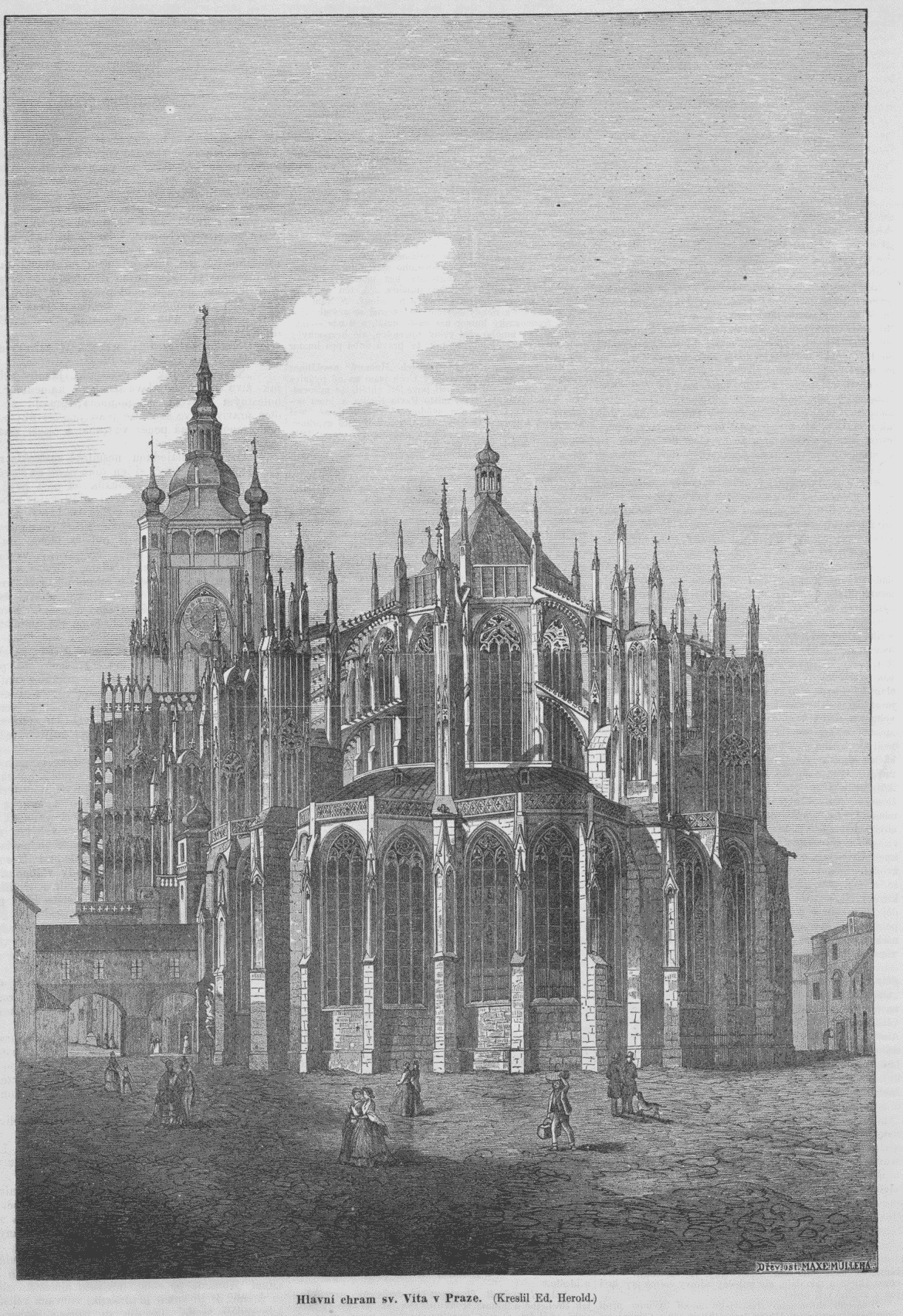 St. Vitus Cathedral in Prague in 1860s